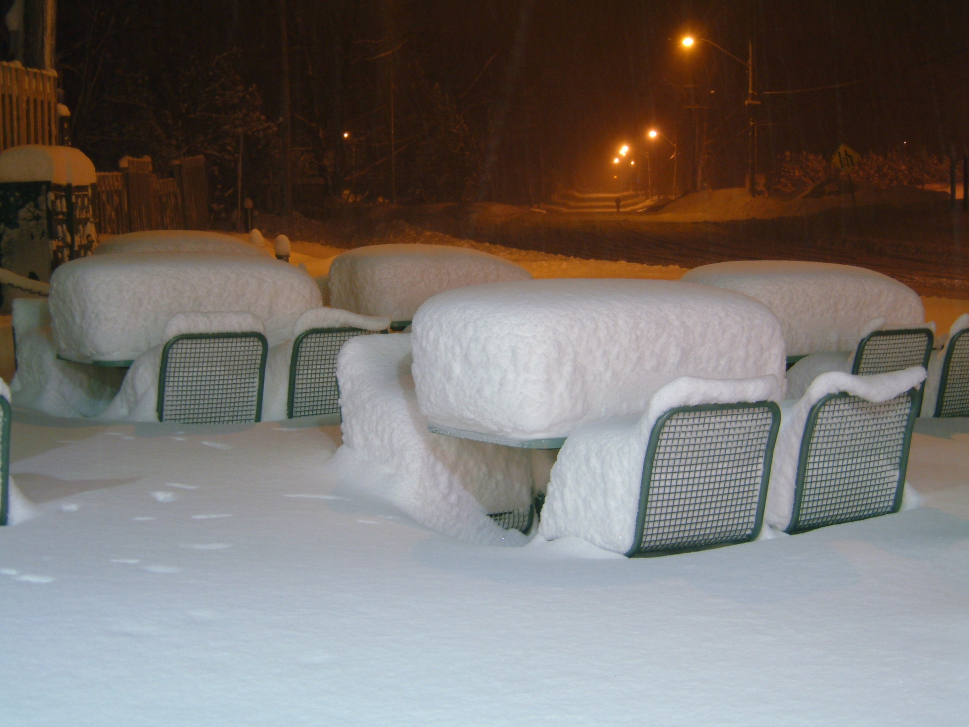 Storm chasers Patrick Cool & Tom Stefanac document a major lake effect snow squall. The squall which produced snowfall rates as high as 15cm/hr dropped 60cm of snow in the community of Wasaga Beach over a 12 hour period between 9AM and 9PM. In this image benches and tables located on the Pizza Pizza patio (75 Mosley St, Wasaga Beach, Ontario) are buried by 60 centimeters (24 inches) of snow shortly after 9PM. For more images and a full account please refer to .